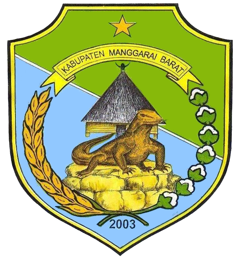 Seal of West Manggarai Regency